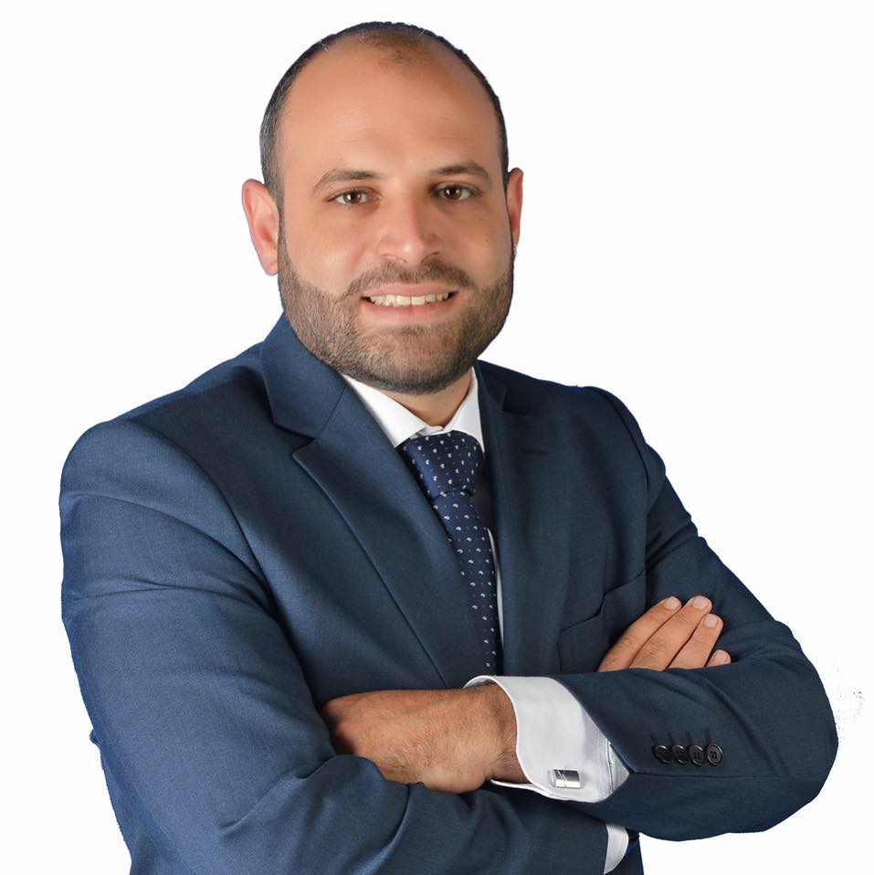 Chadi Nachabe